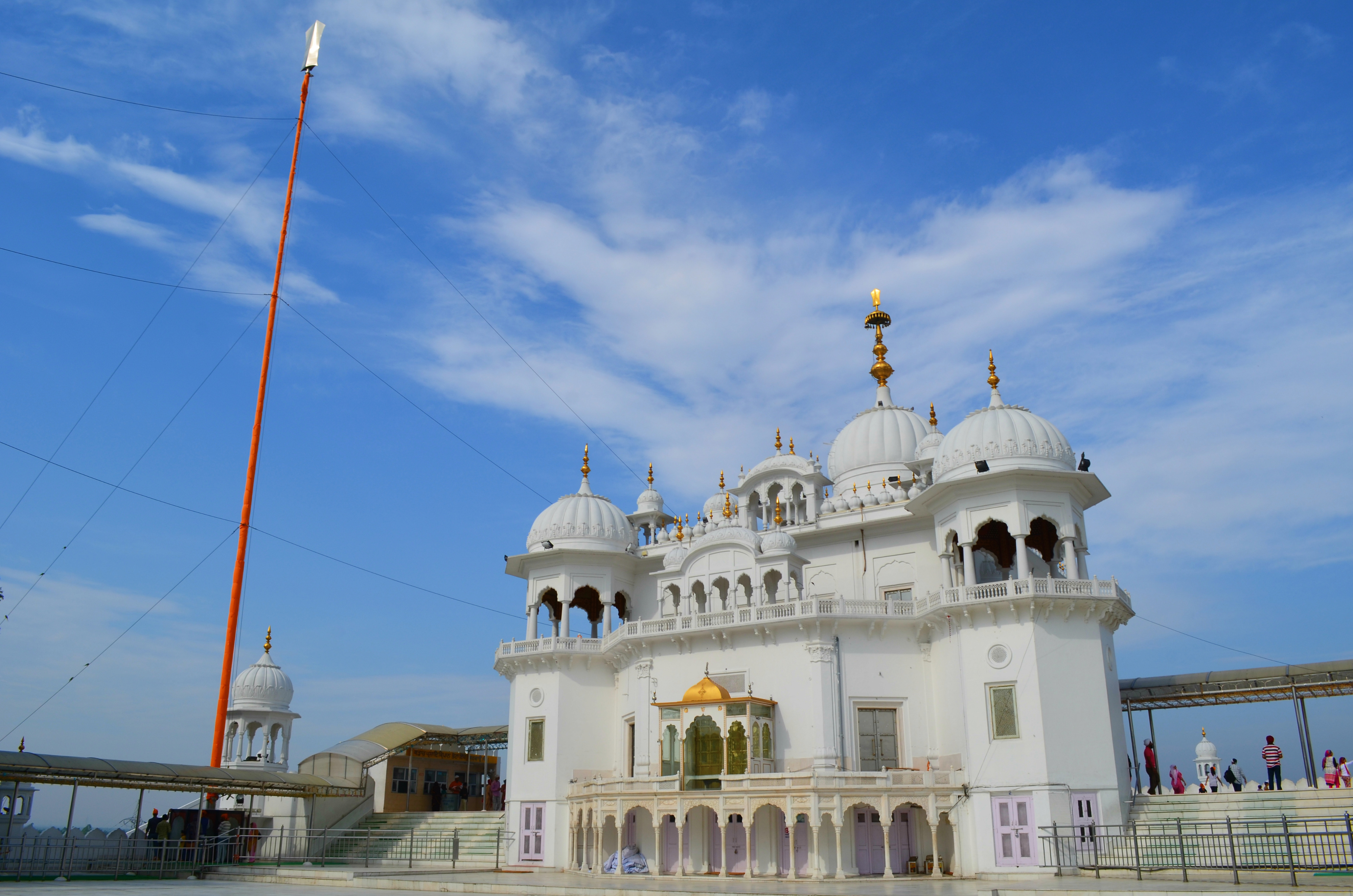 Front view of the Gurudwara Sri Anandpur Sahib